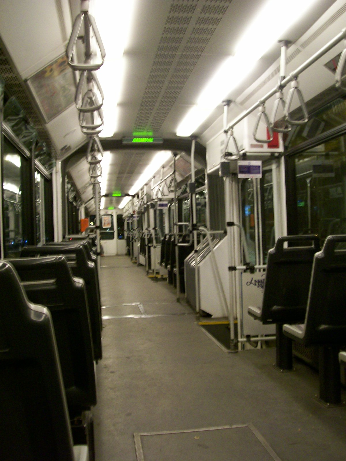 Inside of a Zagreb tram type TMK 2100